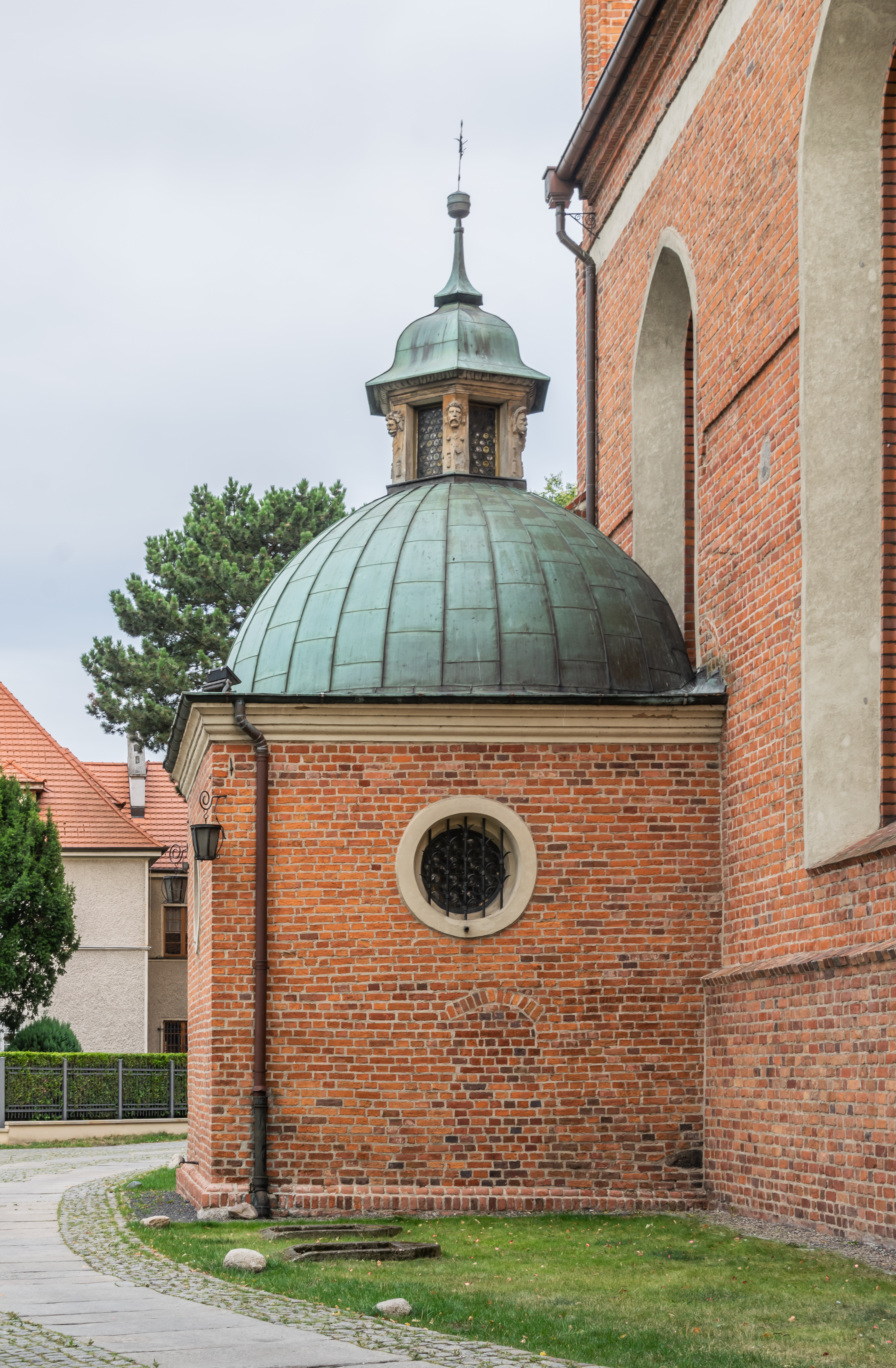 Saints Martin and Nicholas cathedral in Bydgoszcz, Kuyavian-Pomeranian Voivodeship, Poland